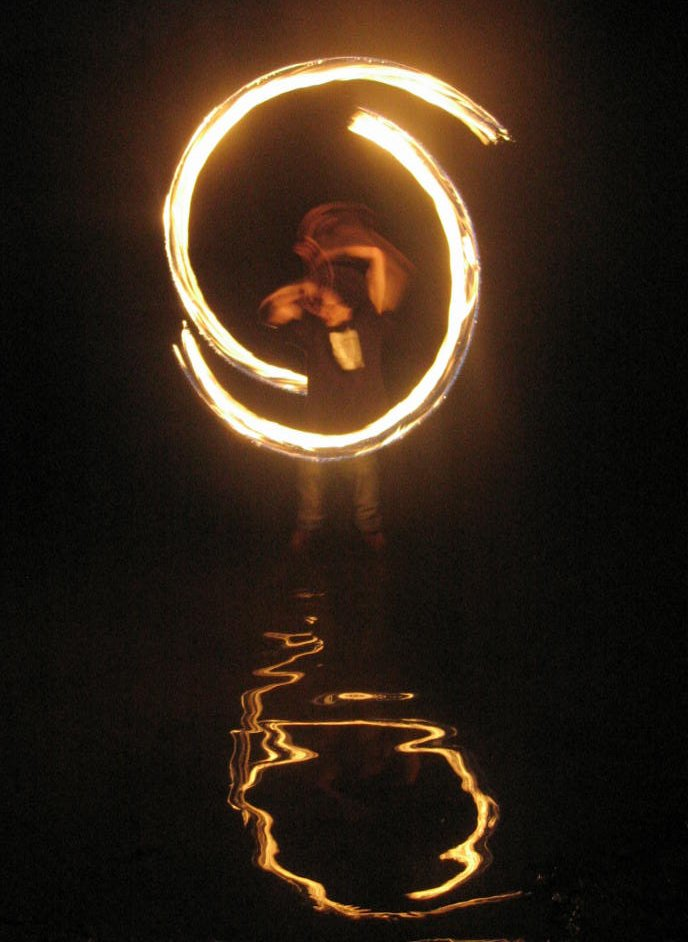 from Kupala's Night 2006, me standing in the water and dancing with poi.